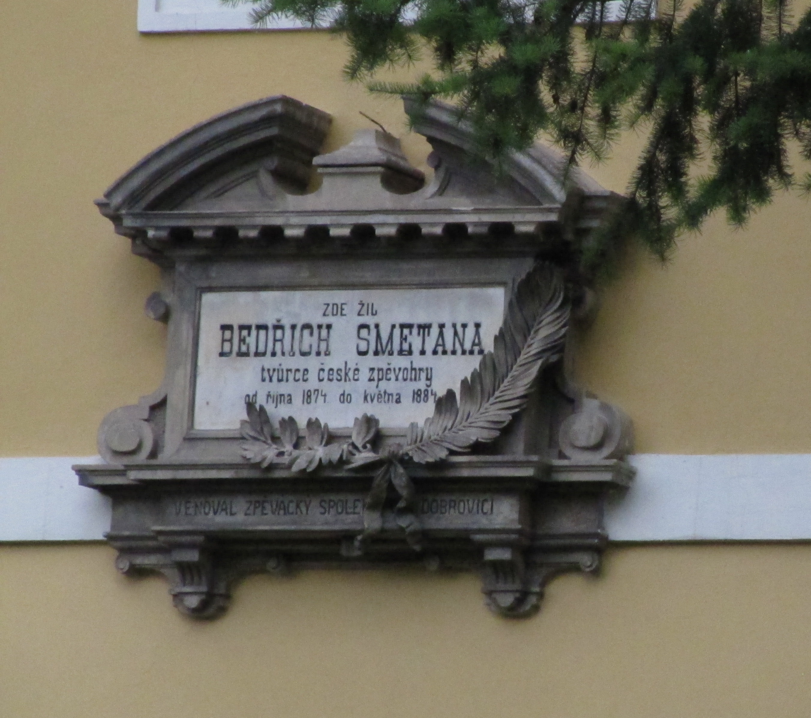 Jabkenice, Mladá Boleslav District, Czech Republic. Gamekeeper's lodge, residence of Bedřich Smetana in the years 1874-1884, now a museum.